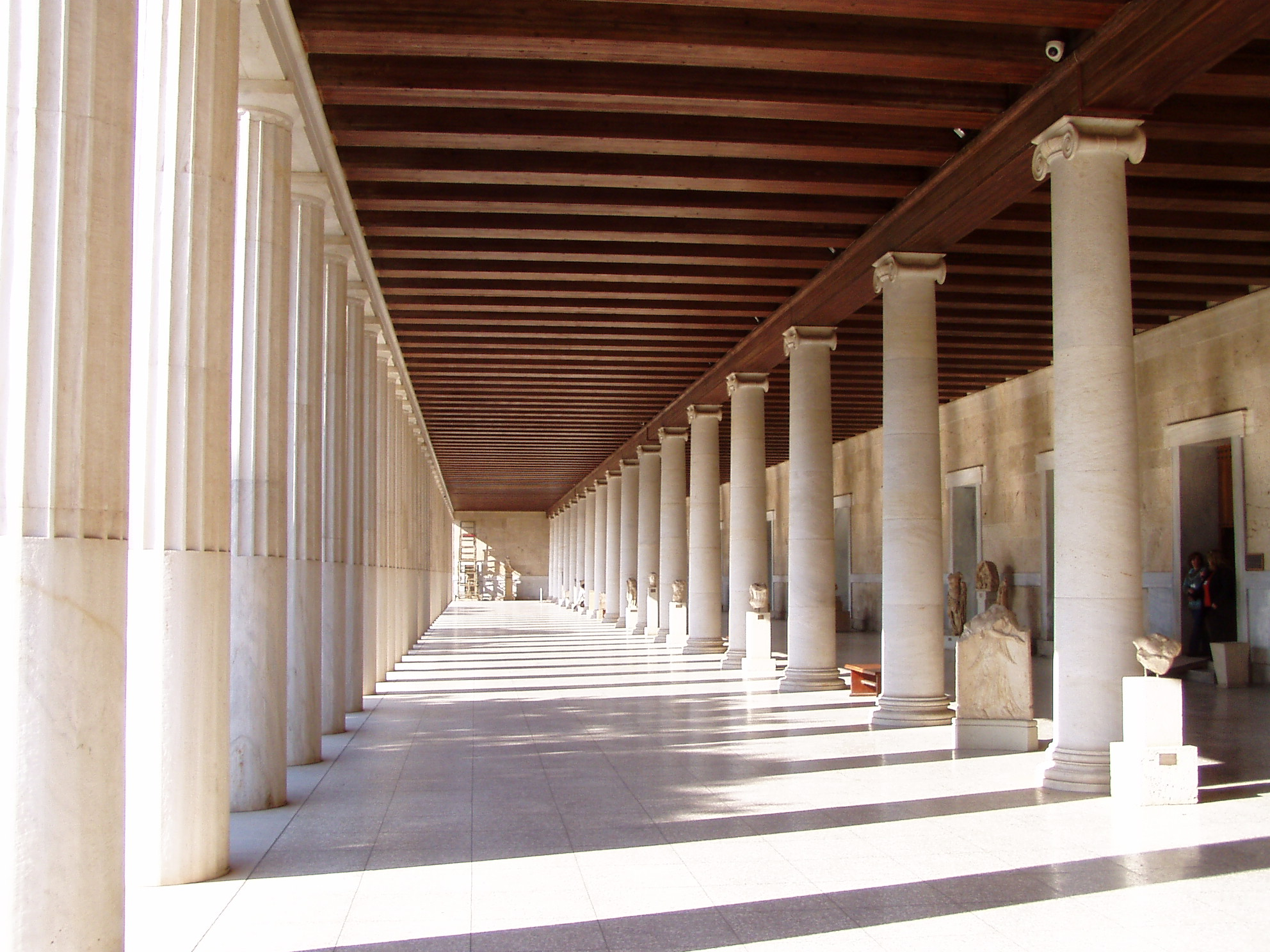 This is the stoa of Attalos at the Agora of Athens.